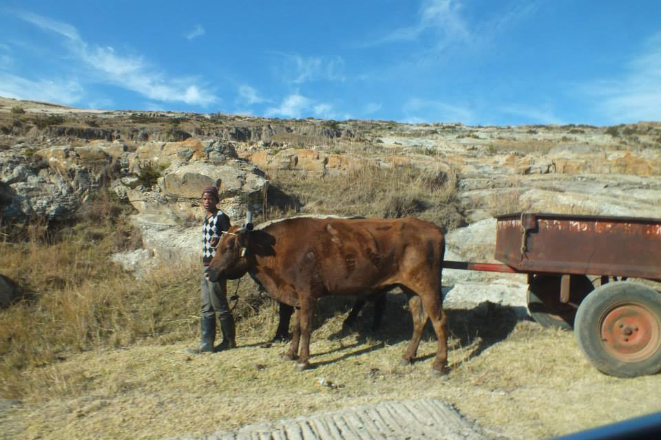 Cattle work in Lesotho This is an image of "African people at work" from Lesotho